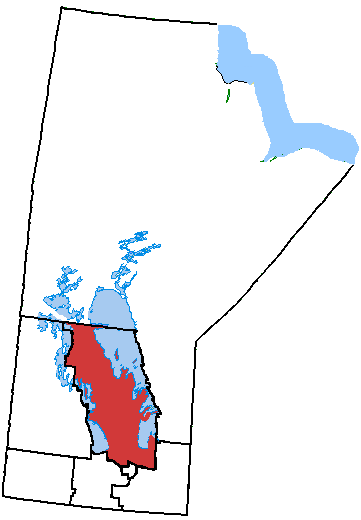 Map of the Selkirk—Interlake electoral district. Based on Earl Andrew's maps, created by SimonP.